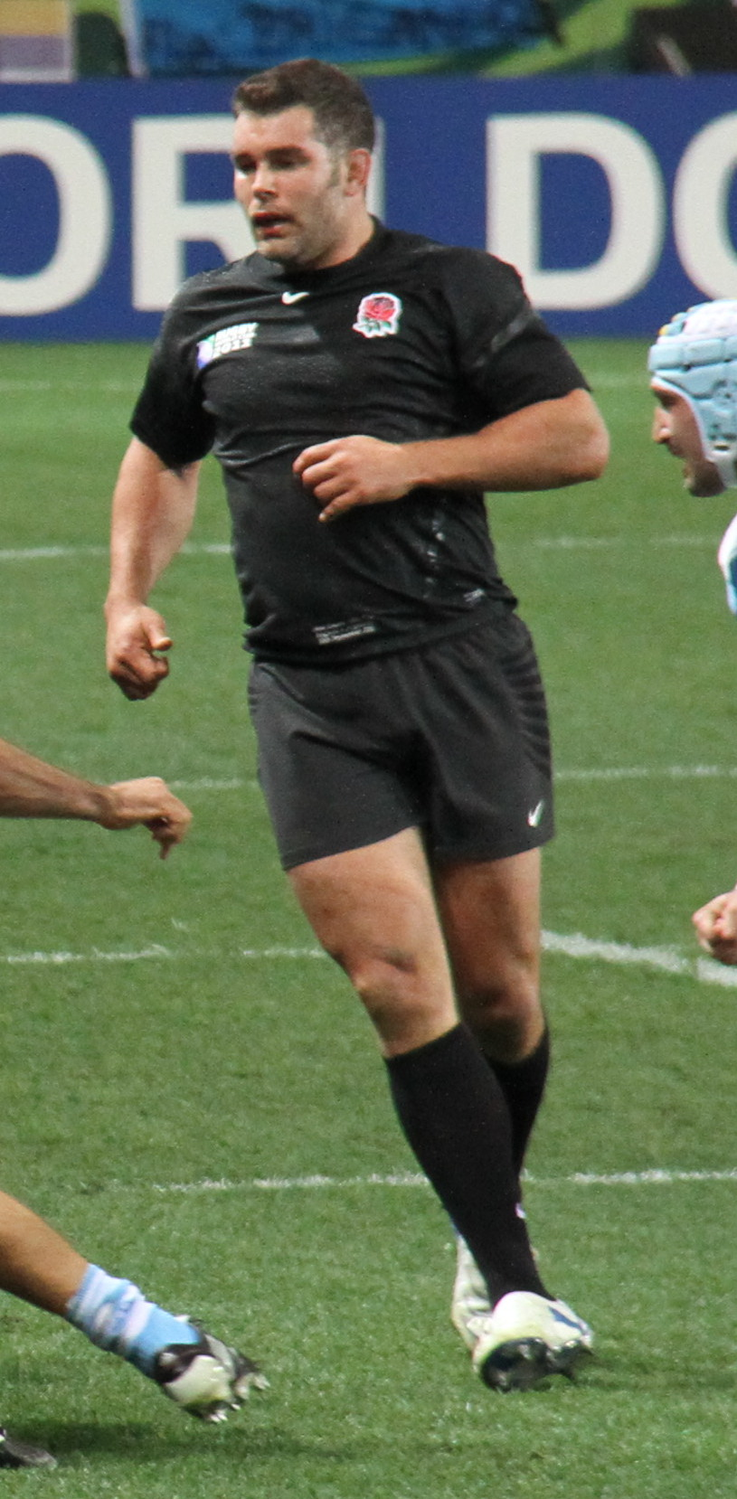 English rugby union player Nick Easter during 2011 Rugby World Cup match against Argentina.